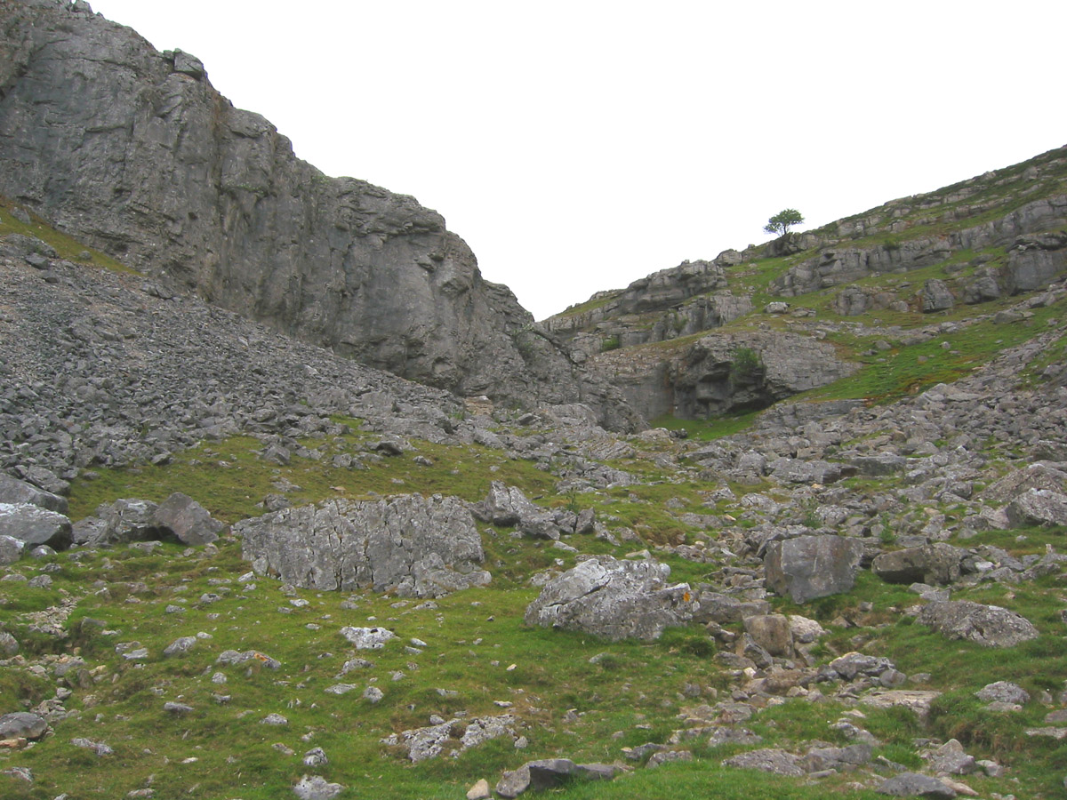 Eglwyseg Rocks, above Rock Farm.